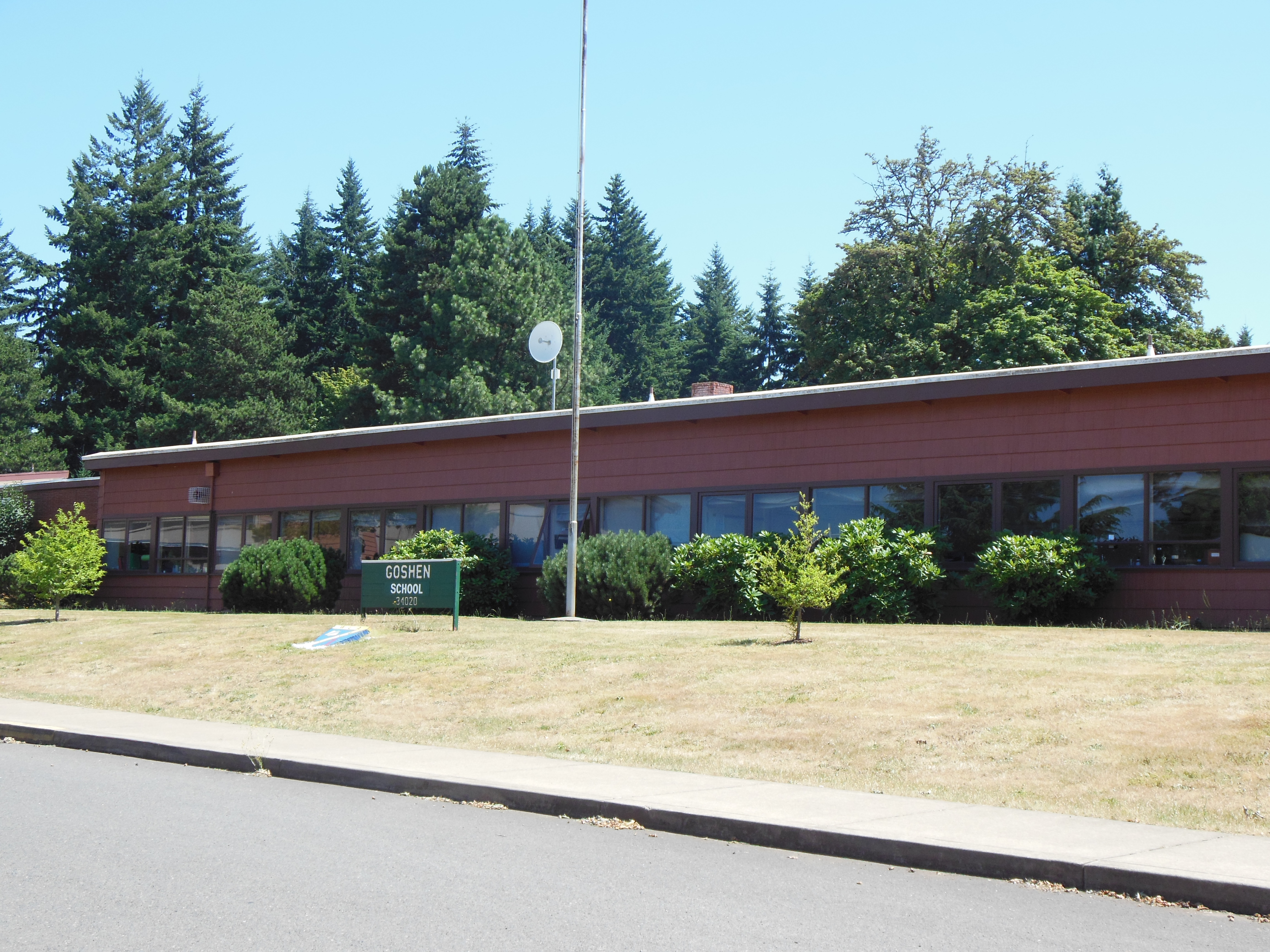 Part of the Goshen School building in Goshen, Oregon, USA